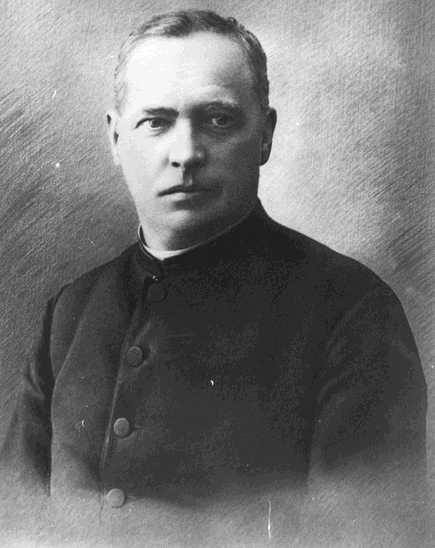 RM Azkue